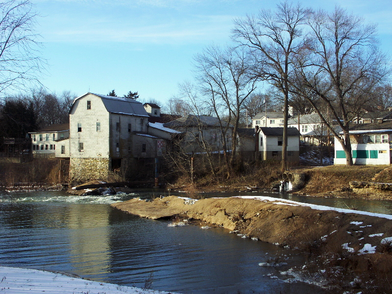 Photo of a dam on the Big River in the Ozarks region of Missouri, in the town of Cedar Hill. This dam was built to provide power for the mill visible in the background. The mill closed in the early 21st century.